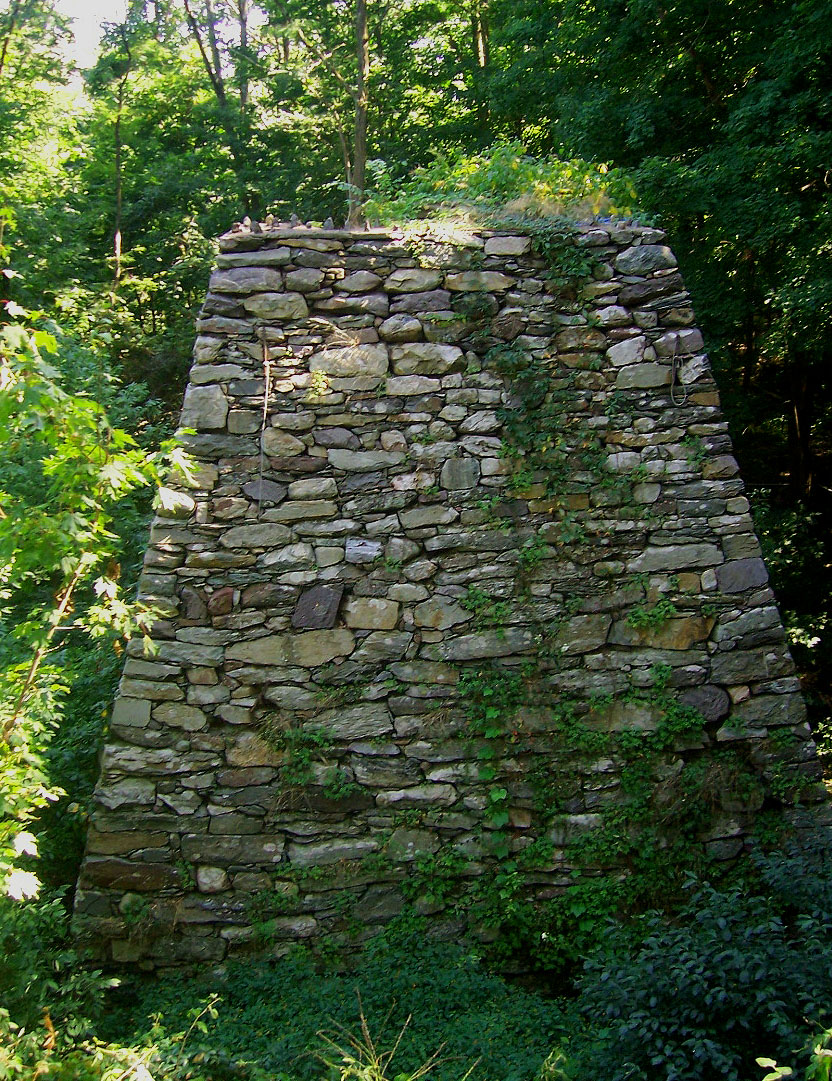 The 18th-century smelter mistakenly believed to be a Druidic temple. Photographed by Daniel Case 2005-09-11